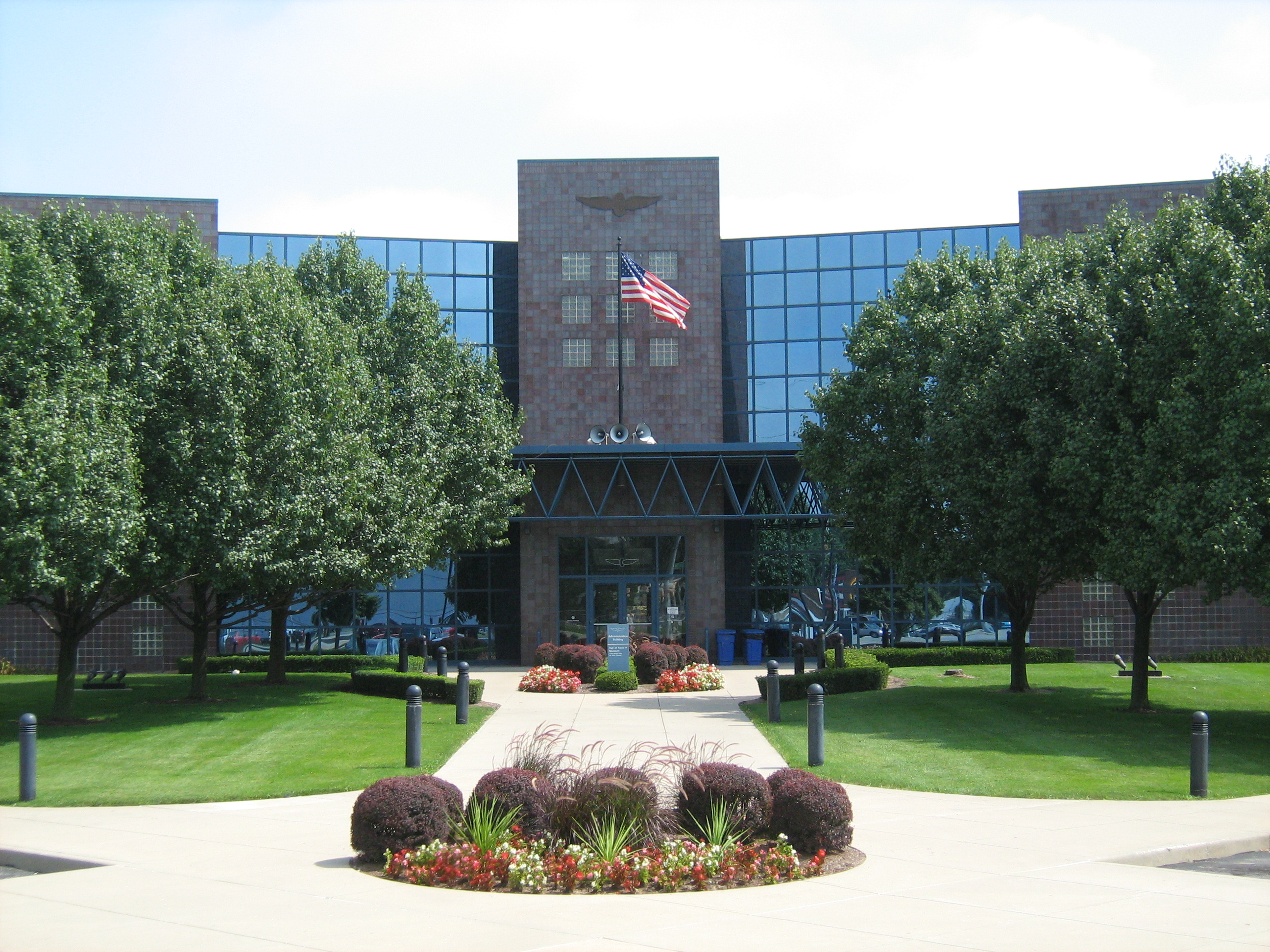 Indianapolis Motor Speedway - Administration Building entrance.